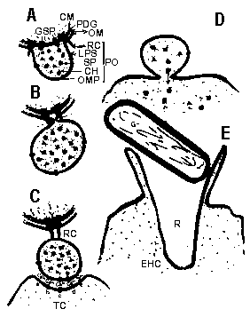 A model for secretion of outer membrane vesicles of gram negative microbes